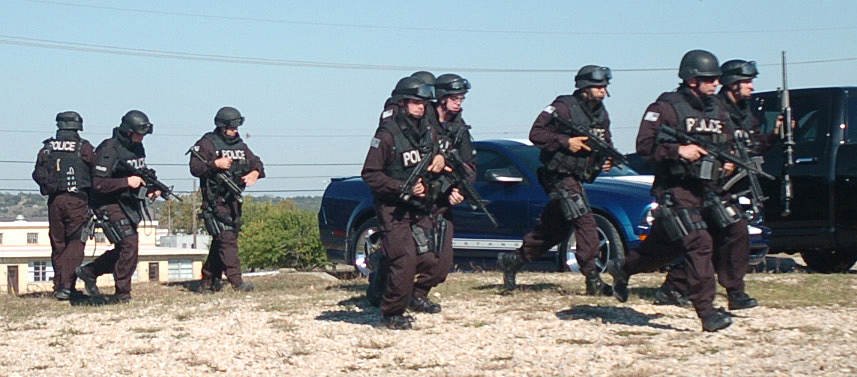 SWAT team members approach a building with a gunman inside. Thirteen people were killed and 30 more wounded in an attack by a lone gunman at Fort Hood, Texas, Nov. 5, 2009. U.S. Army photo by Sgt. Jason R. Krawczyk See more at